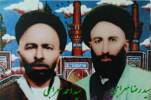 Seyed Ahmad and Seyed Reza Meraji